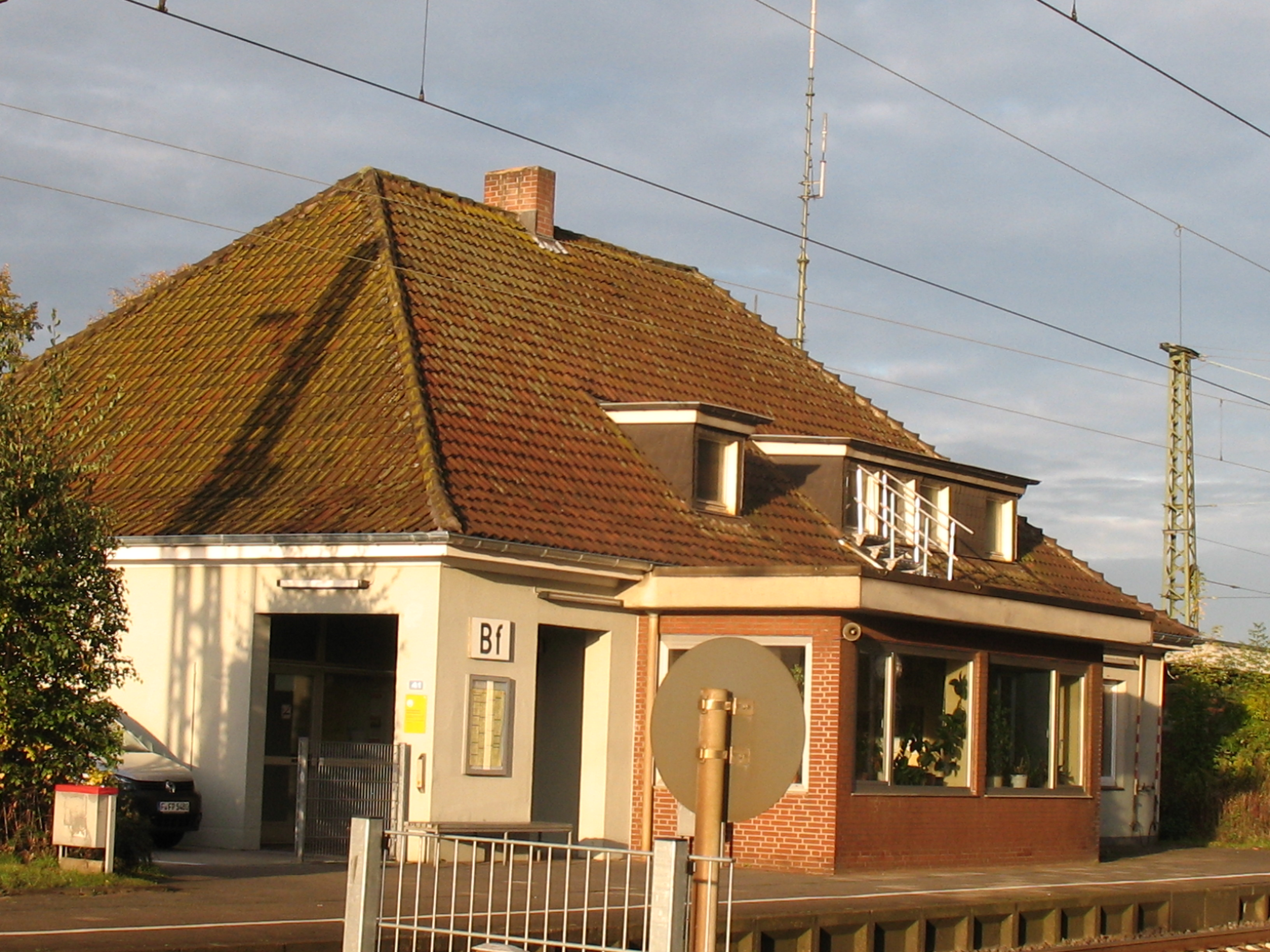 Bockum-Hövel, railway station